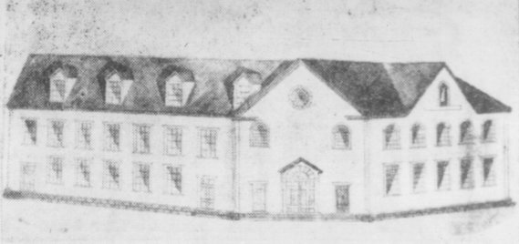 Saint-Louis College, in Saint-Louis-de-Kent, opened in 1874 and closed in 1882.